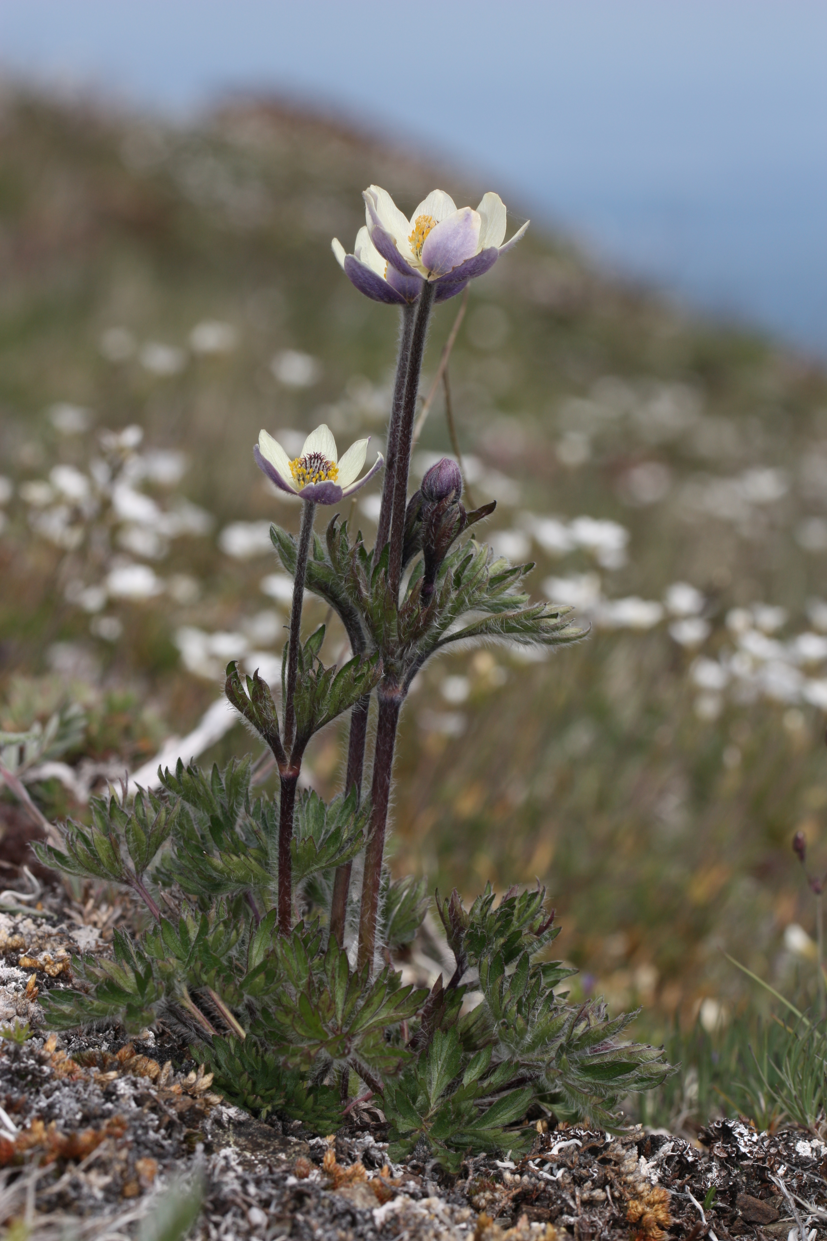 Hirsute Anemone Viewpoint location: Blue Mountain (6000+ feet, 1829+ m), north ridge, Olympic National Park Viewpoint elevation: 1730 meter (5675 ft) Location source: Garmin GPSmap 60CSx Location Datum: WGS84